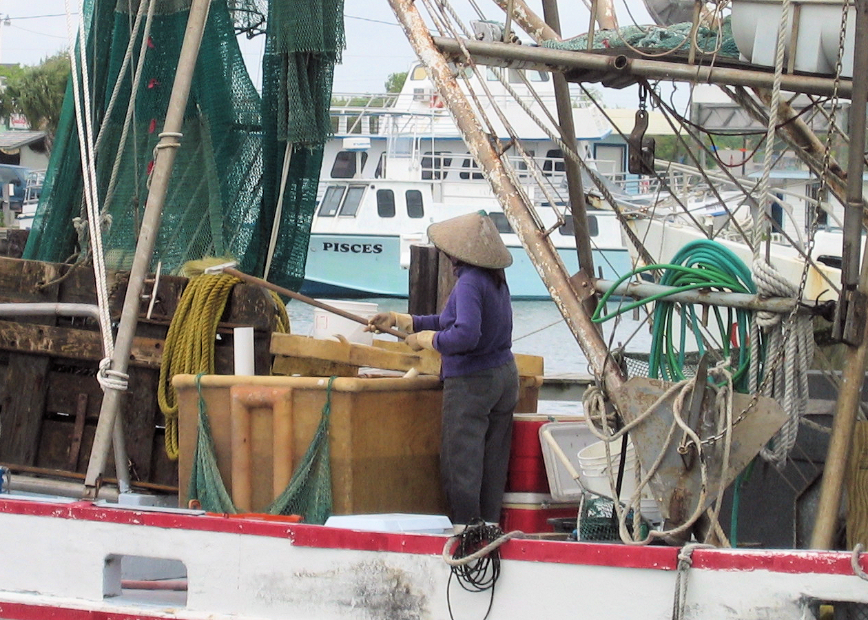 Commercial fisherman, such as this shrimp boat worker, are a mainstay of Fulton, Texas, economy.